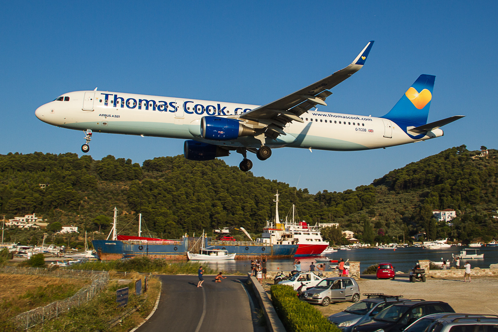 Thomas Cook Airlines Airbus A321 on short finals at Skiathos